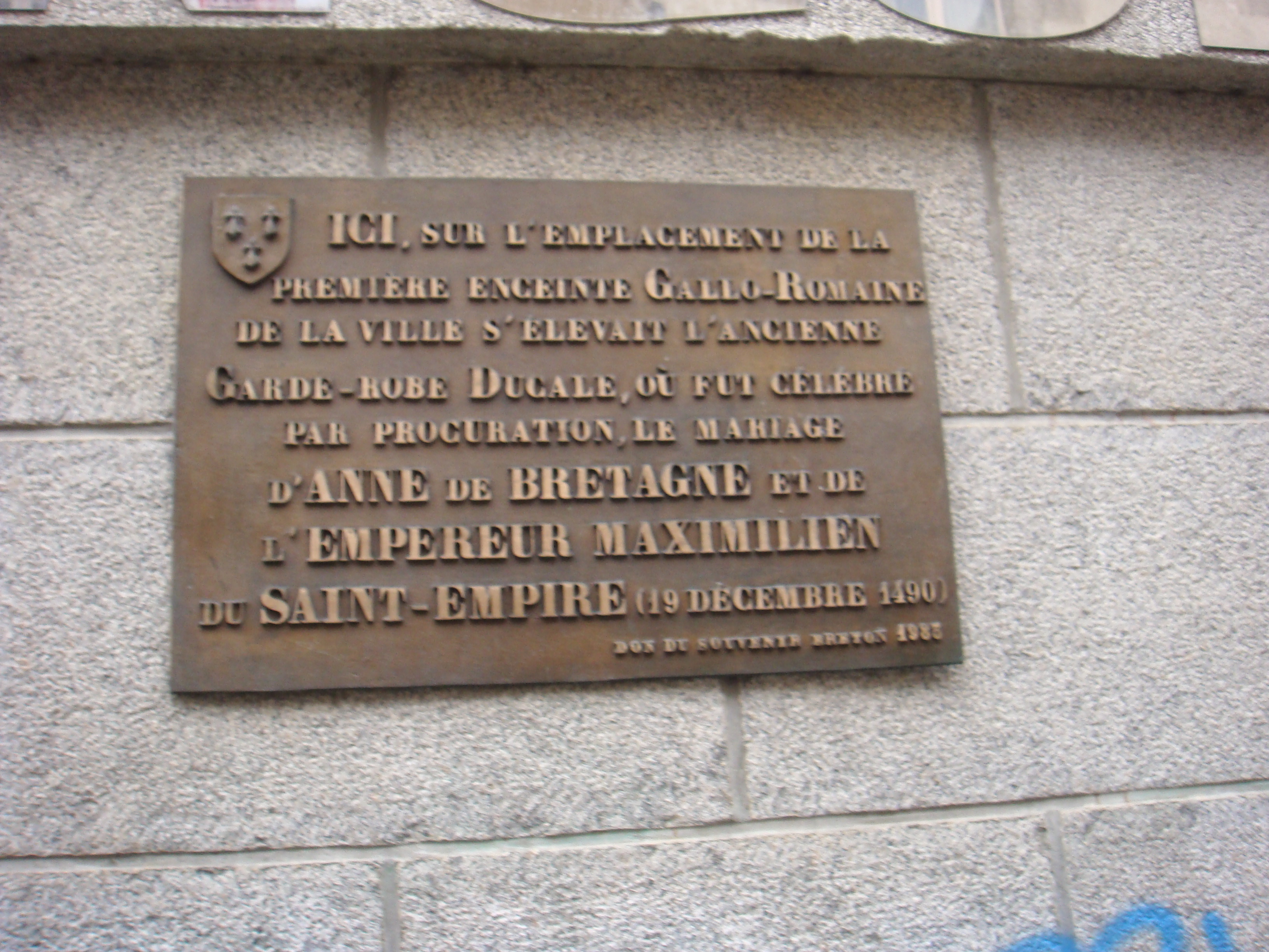 Memorial plaque in Rennes commemorating the marriage by proxy of Anne of Britain with Archduke Maximilian of Austria concluded in 1490 but annulled after the French-Briton war when Anne was forced to marry Charles VIII of France